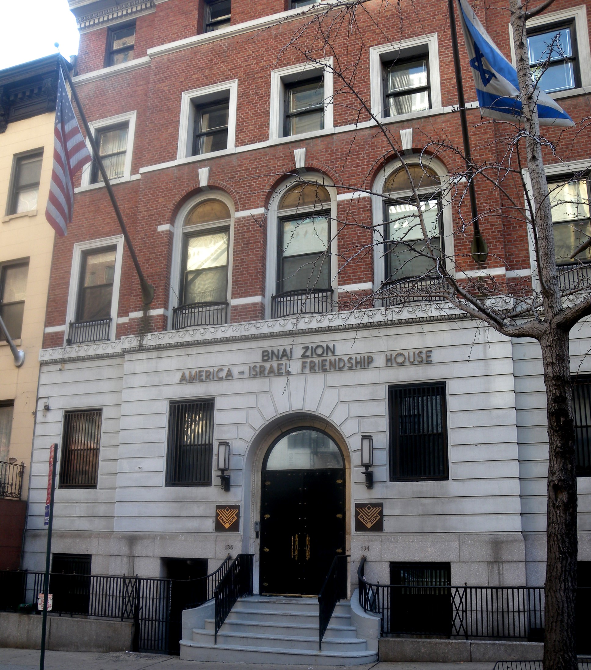 Looking south across 39th at America-Israel Friendship Association on a cloudy day.